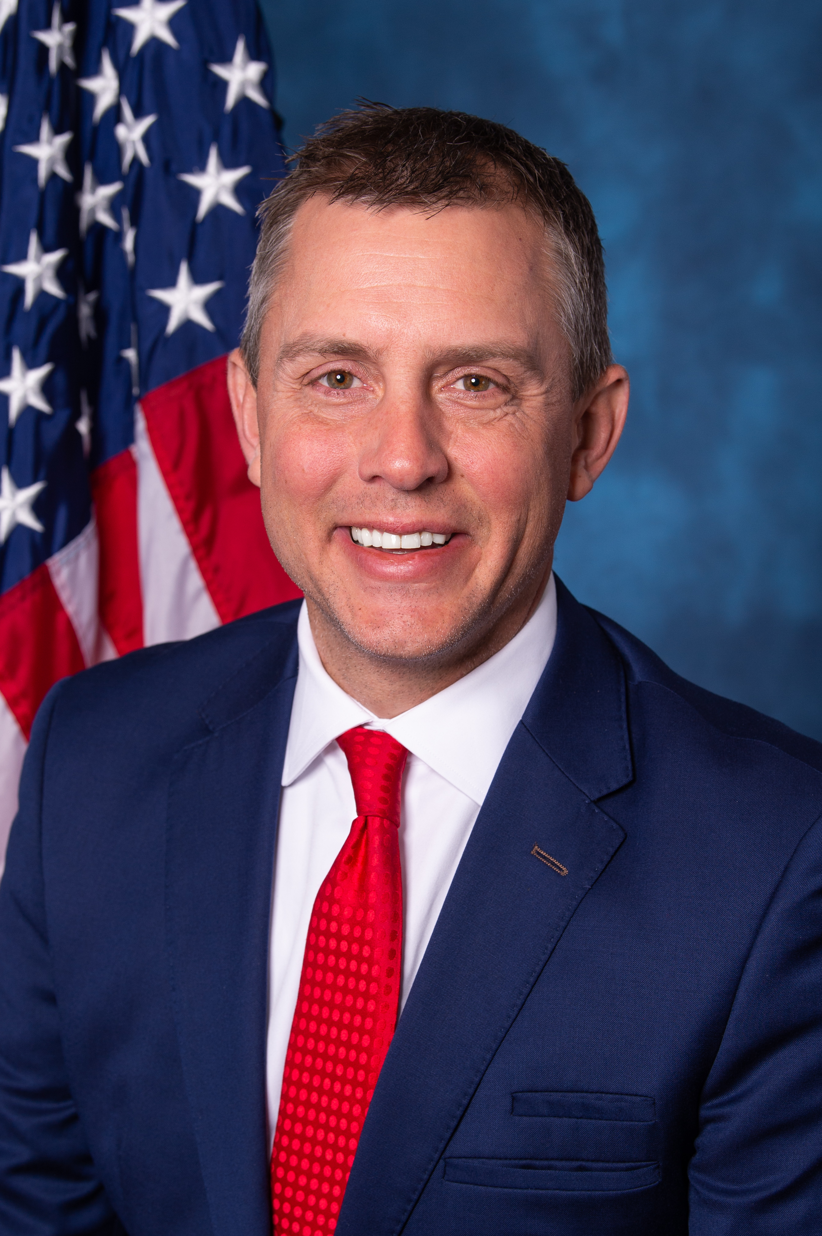 Rep. Kelly Armstrong (R-NDAL)